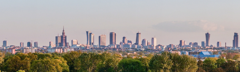 Warsaw panorama (2016)